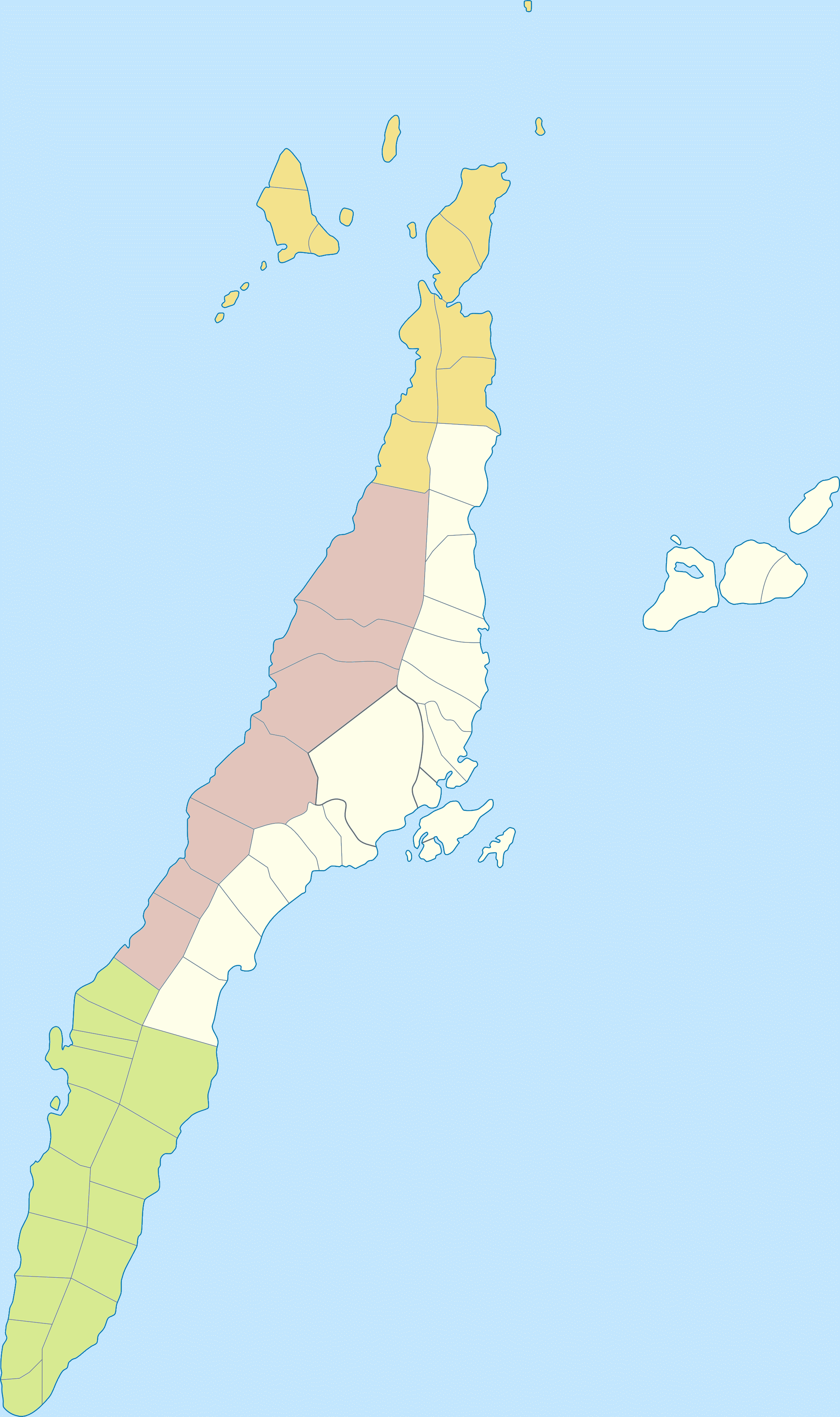 Map of showing the proposed new provinces within Cebu province as part of the Sugbuak proposal. Cebu del Norte Cebu Occidental Cebu del Sur the rest of Cebu